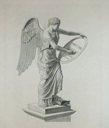 1888 engraving of the Winged victory from Brescia, III century BC/I sec AD.